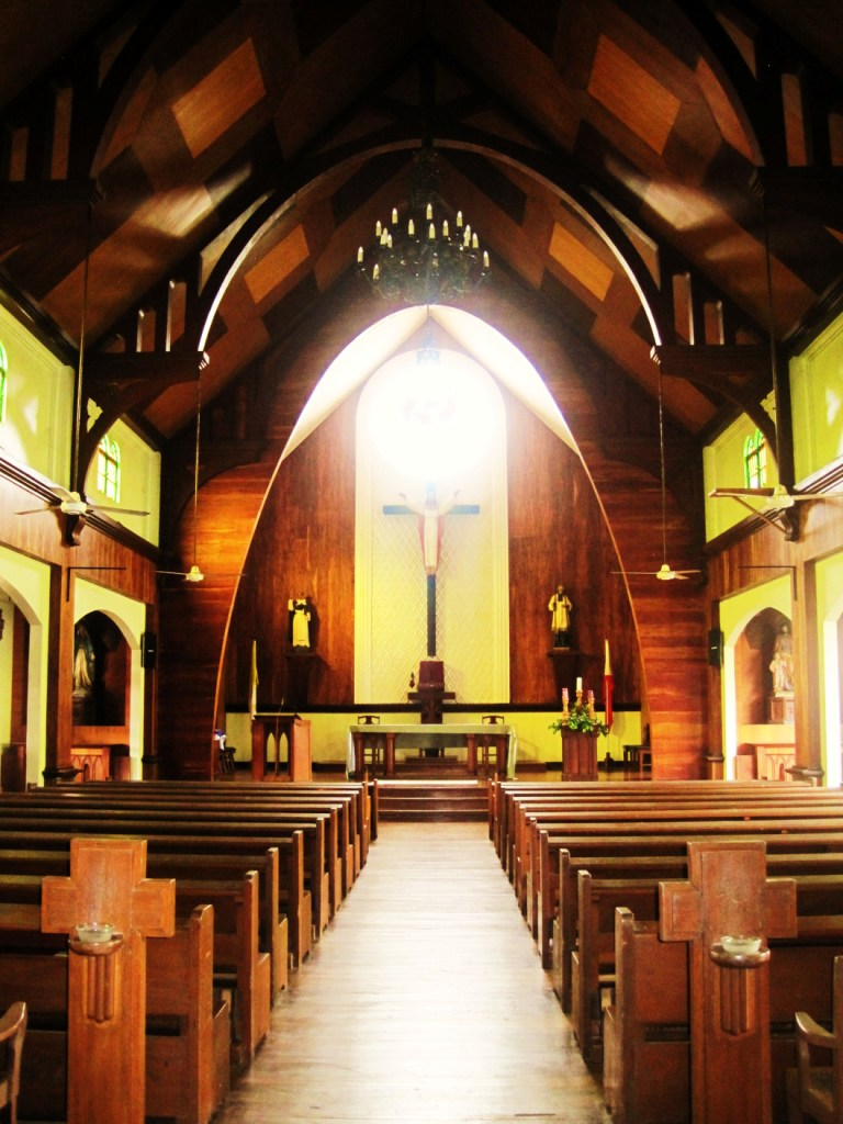 Interior of the Neo-Gothic Chapel of St. Vincent Ferrer Seminary in Jaro, Iloilo City, Philippines. The brass tabernacle was a gift of General Francisco Franco of Spain to Archbishop Jose Maria Cuenco of Jaro.